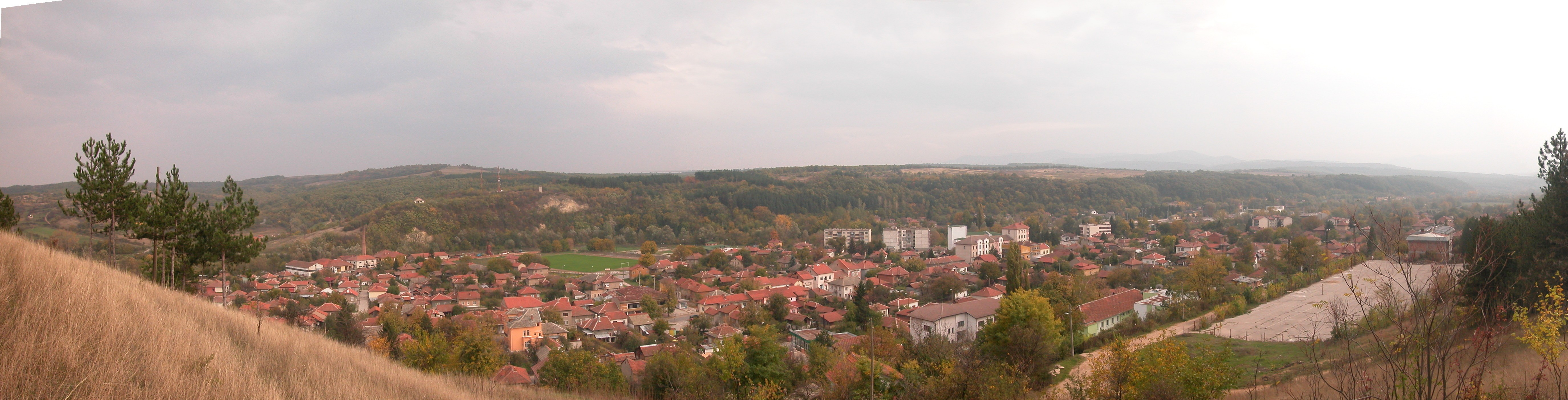 Panorama over the town of Dimovo, NW Bulgaria, taken from "Belia breg"